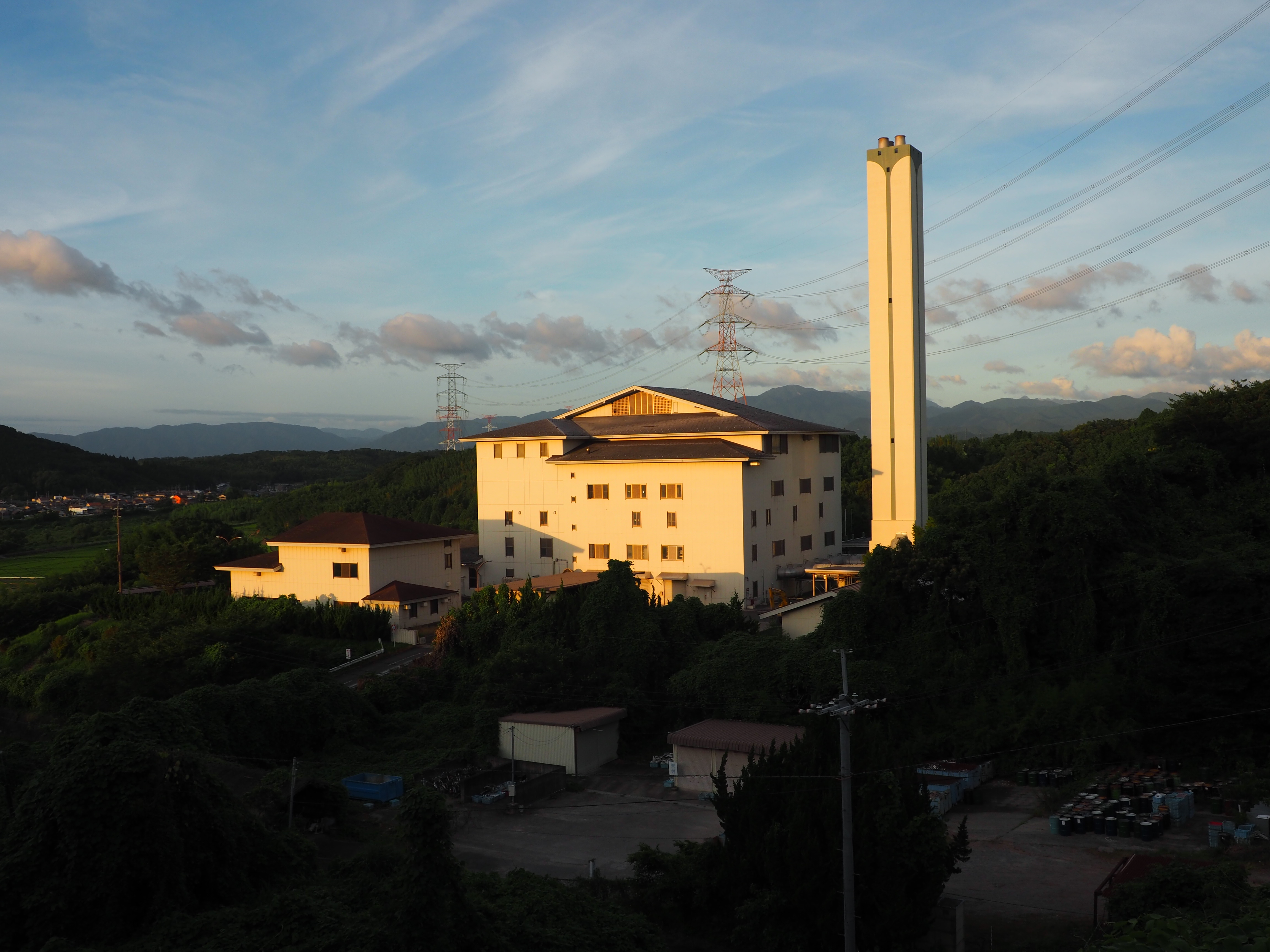 Refuse incineration plant of Koka Large Area Administrative union, Koka, Shiga, Japan